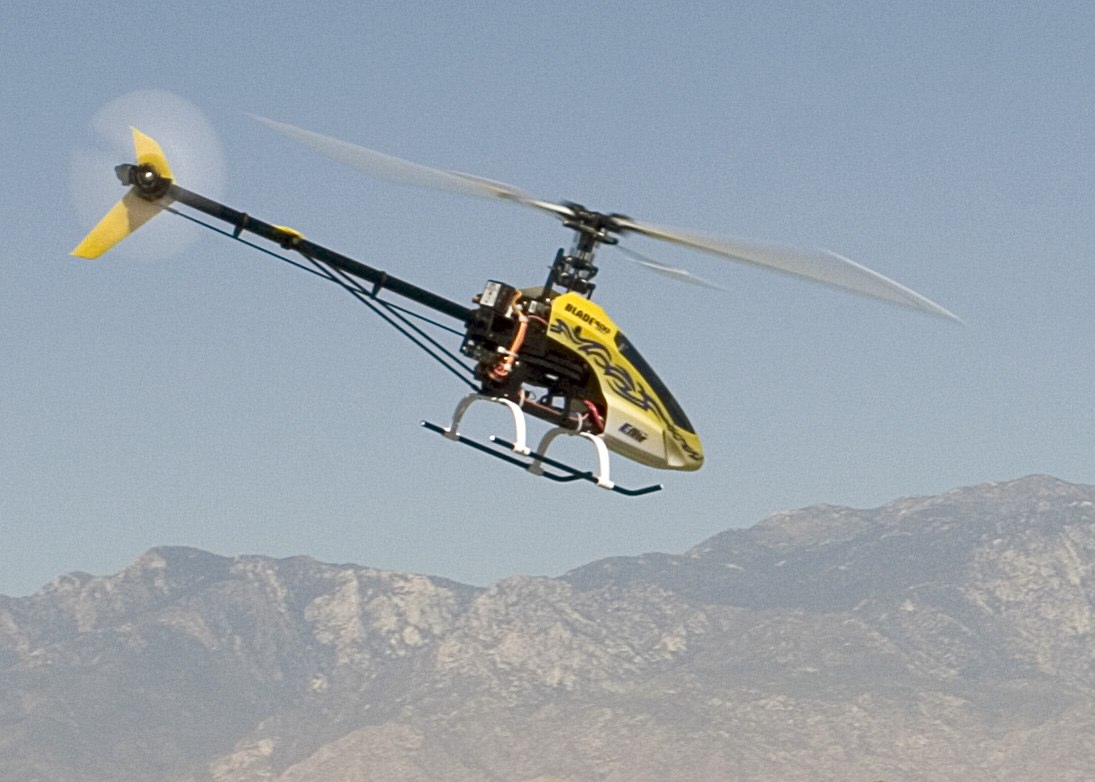 E-flite Blade 400 3D radio controlled model helicopter owned and flown by user SayCheese!. Joint creation with photographer Ken Alan.